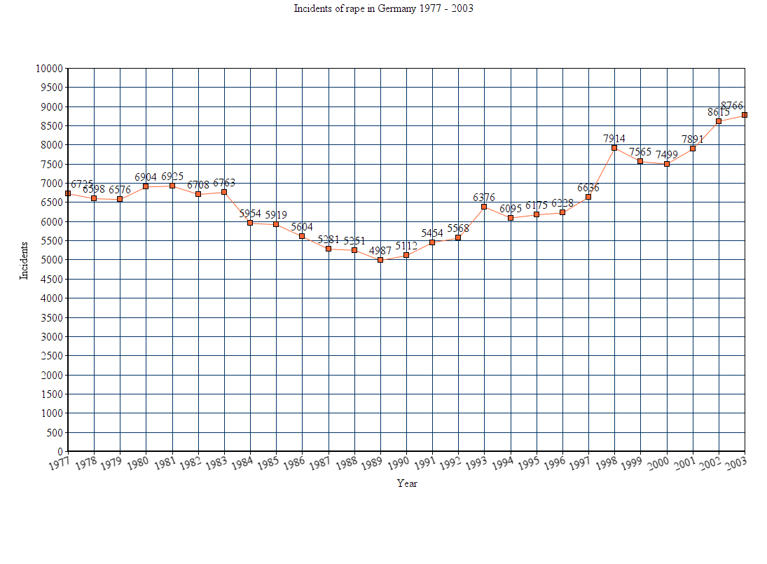 Graph of incidents of rape in Germnay from 1977 to 2003 based on Police crime statistics for published by the Federal Criminal Police Office, taken from online at